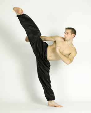 Steve Coleman. Athlete in Wushu from Great Britain doing a sidekick.